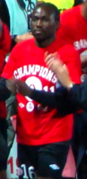 Barel Mouko (LOSC), football player from Pointe-Noire, the Republic of the Congo.